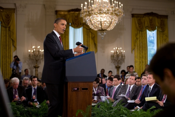 Obama White House press conference, 11/3/2010, with Chip Reid and Ed Henry in front row.